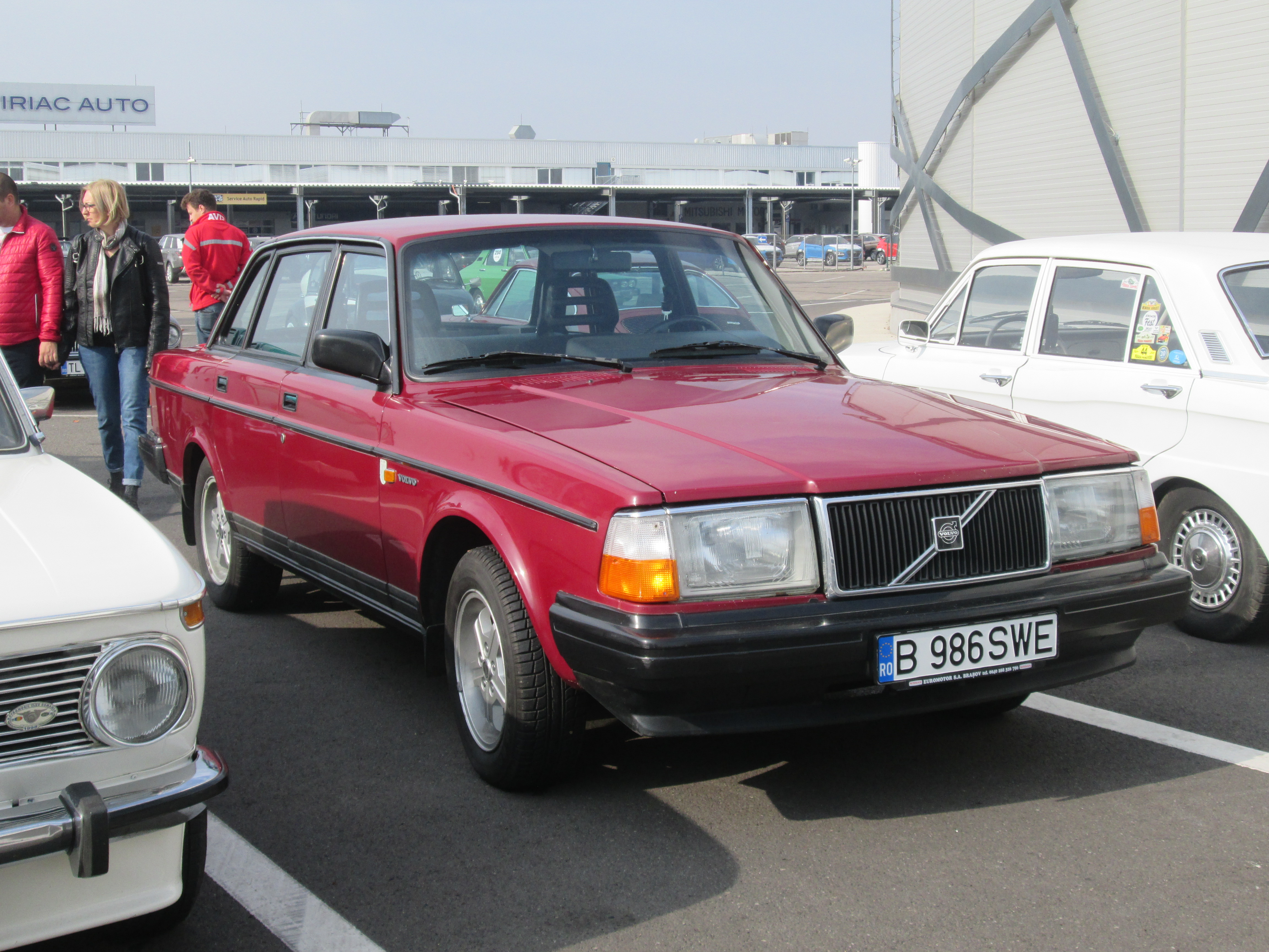 1986 Volvo 244 at the Autumn Retroparade 2018, Bucharest